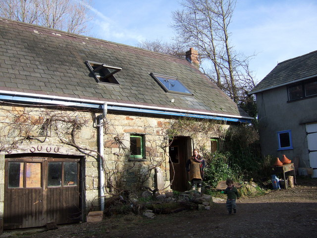 Fachongle Isaf Part of the farmstead where the self-sufficiency pioneer and guru John Seymour (1914 to 2004) lived, died and is buried. He farmed here in the 1970s using ideas and techniques he had learnt in many parts of the world, writing and teaching about sustainability and attracting many followers. Some of them, along with members of his extended family, still pursue a 'green' lifestyle here and work towards putting his philosophy into practice in a variety of different ways for the benefit of all.